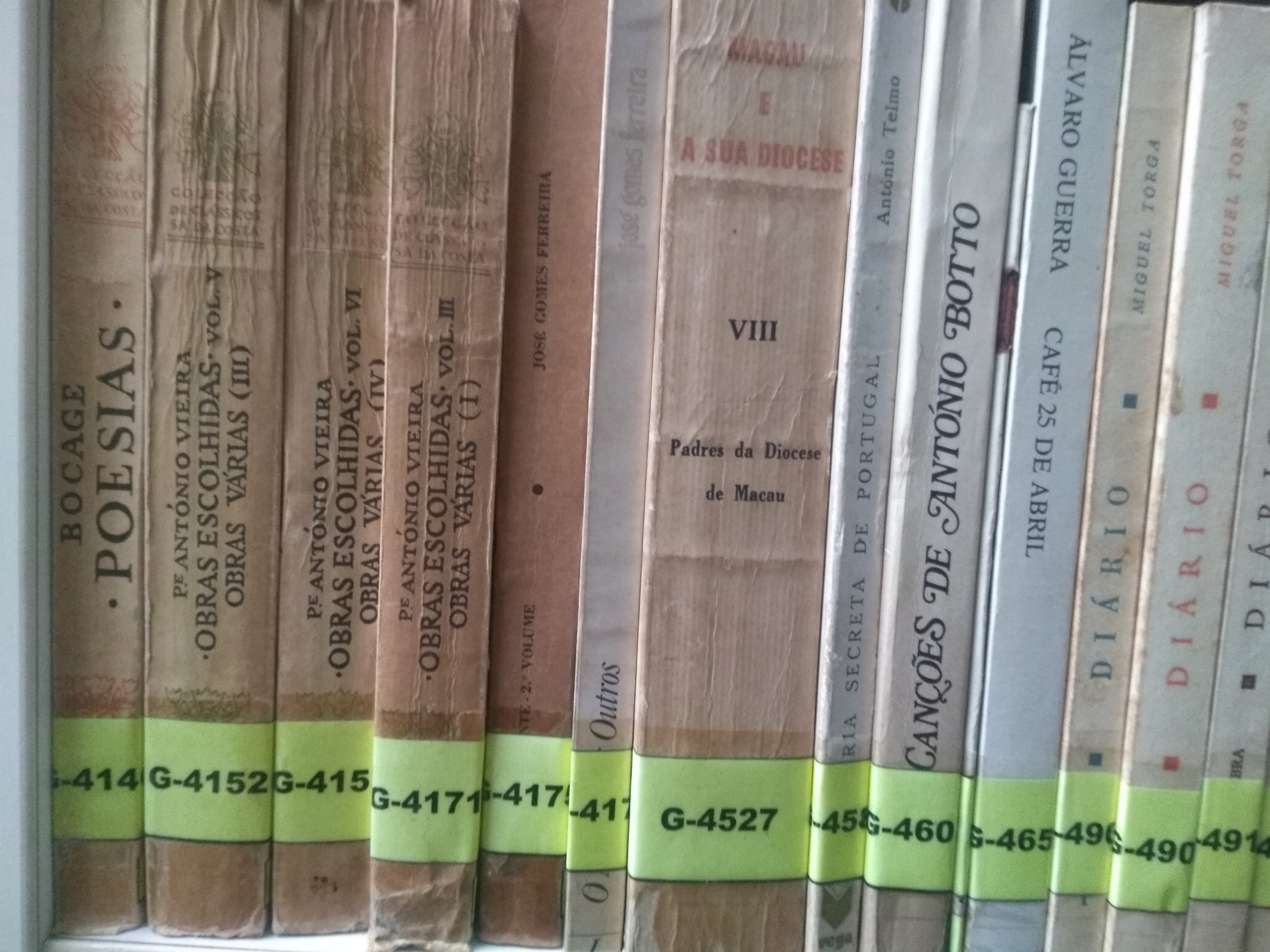 Portuguese books from the colonial era on display at the Central Library, Panjim, Goa. Photo by Frederick Noronha, or +91-9822122436